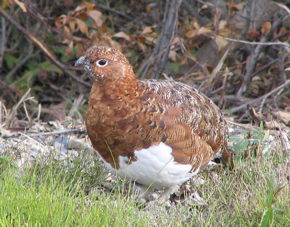 Picture of the Alaskan Ptarmigan in Denali National Park.